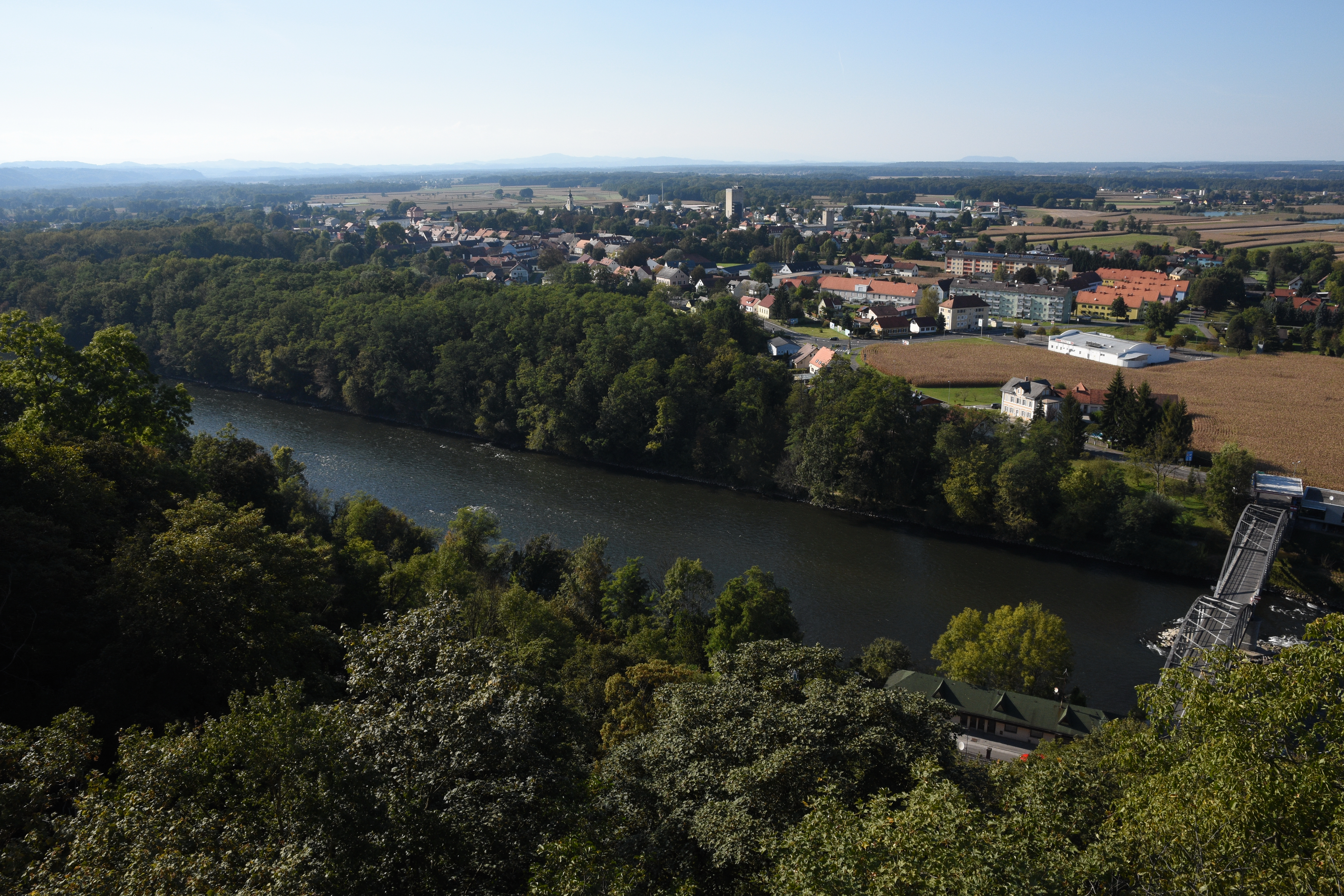 Mureck View